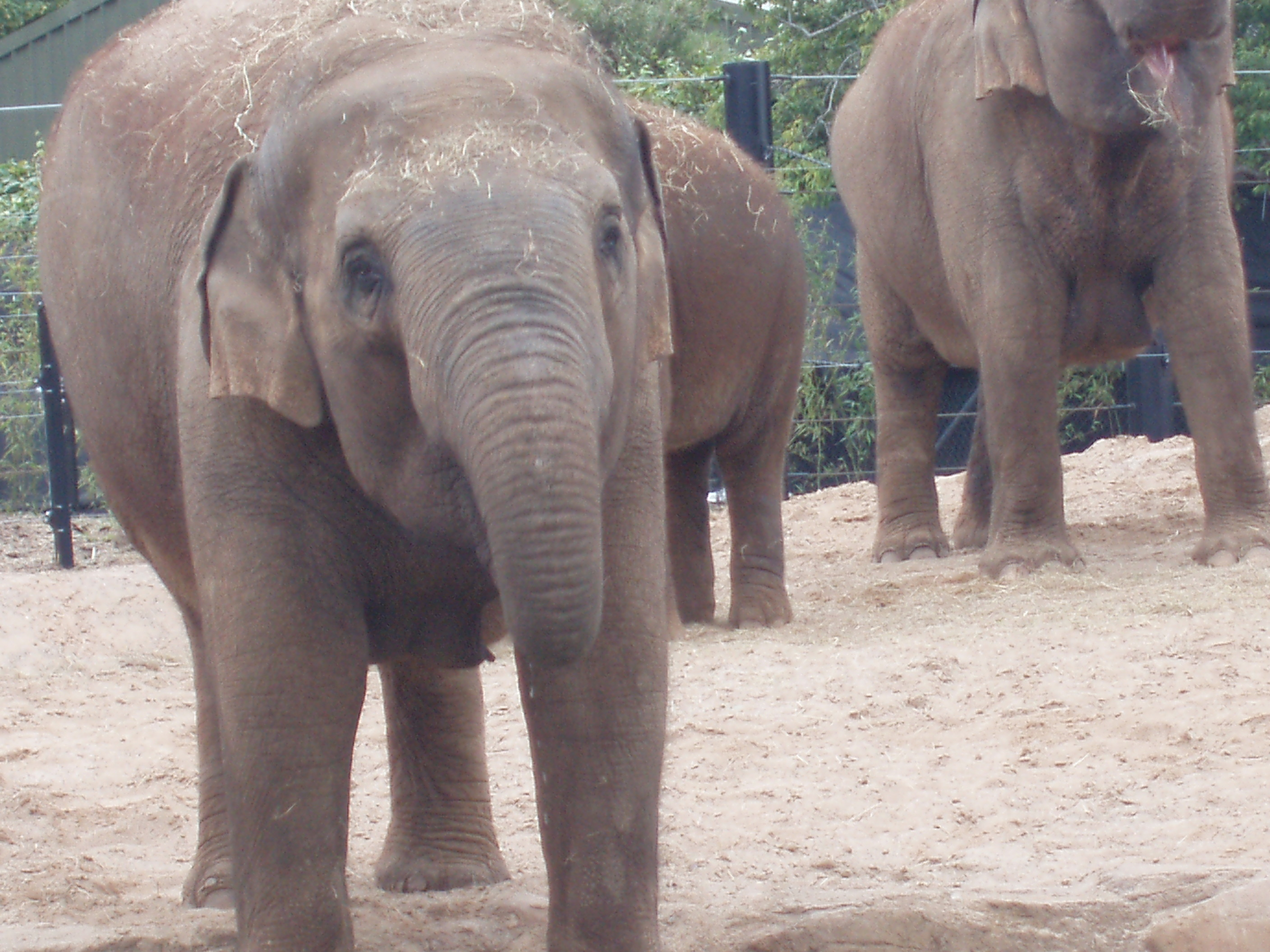 Yasmin at Dublin Zoo Drinking